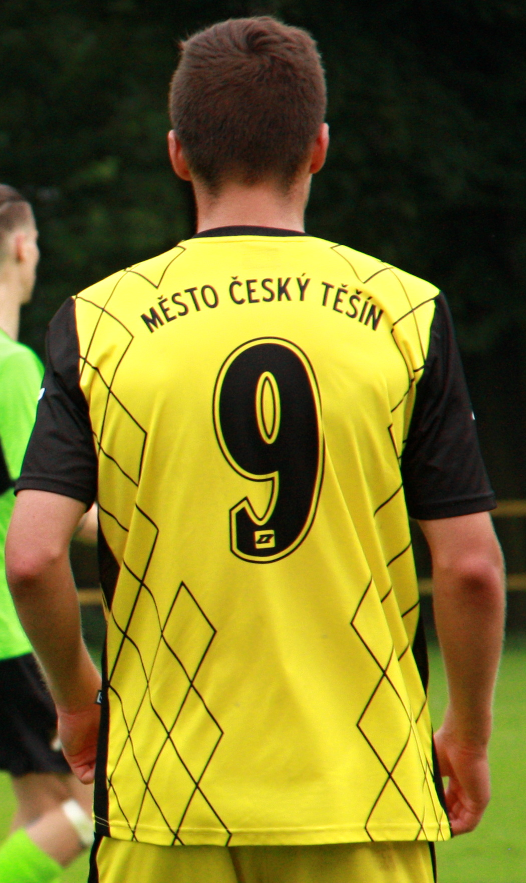 A football match between FK Český Těšín and FK SK Polanka nad Odrou on June 16 2018